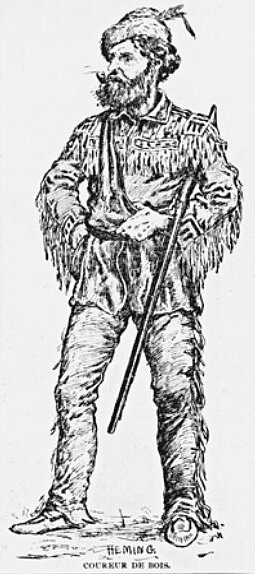 Coureur de Bois in typical dress. These Frenchmen became involved in the 1650s in the fur trade. Woodcut by Arthur Heming (1870 - 1940).